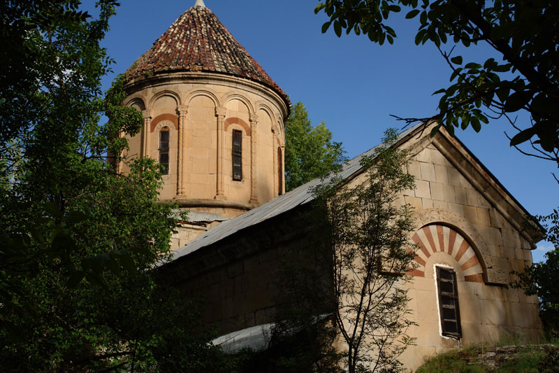 The Khakhuli monastery of middle ages, an architectural monument. This is the cross-dome church, a significant center of Georgian culture in Tao. It is located on the left bank of the Khakhulistskali river. Been established by David III Kuropalat, Khakhuli was the strong literary-educational center where Giorgi Mtatsmindeli has taken education